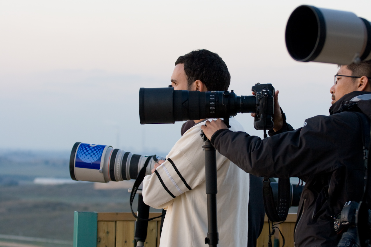 2 Photojournalists in 2008-2009 Israel-Gaza conflict.